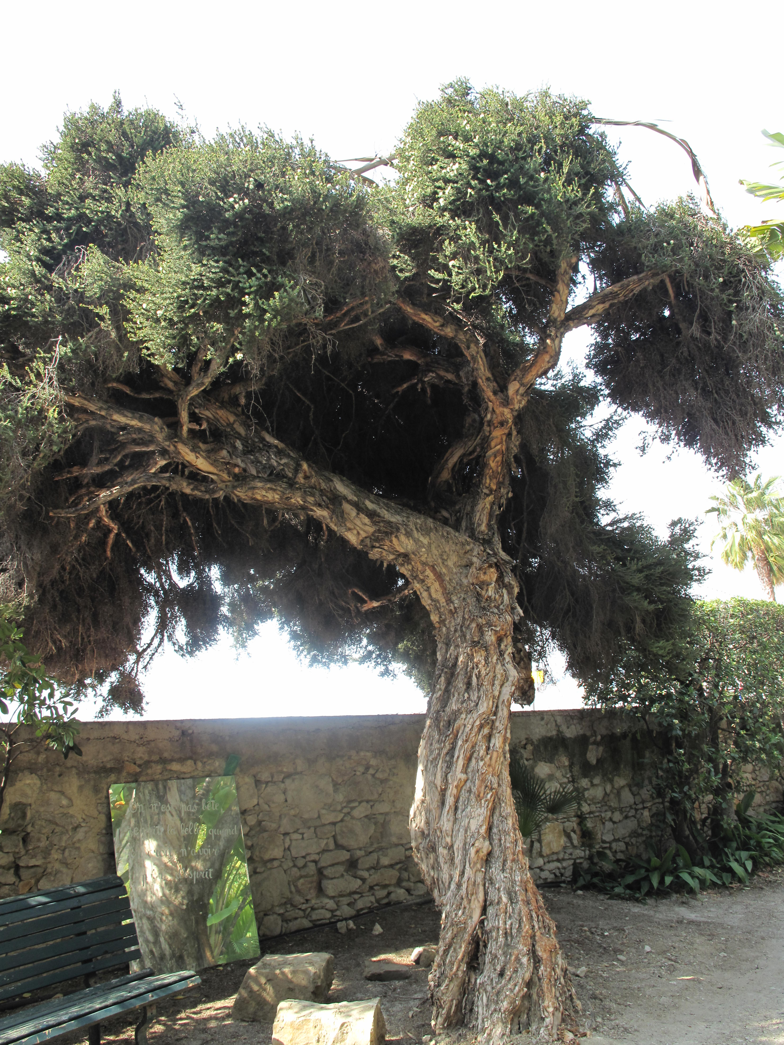 Melaleuca in the garden of the villa Maria Serena in Menton (Alpes-Maritimes, France). Identified by botanic label.